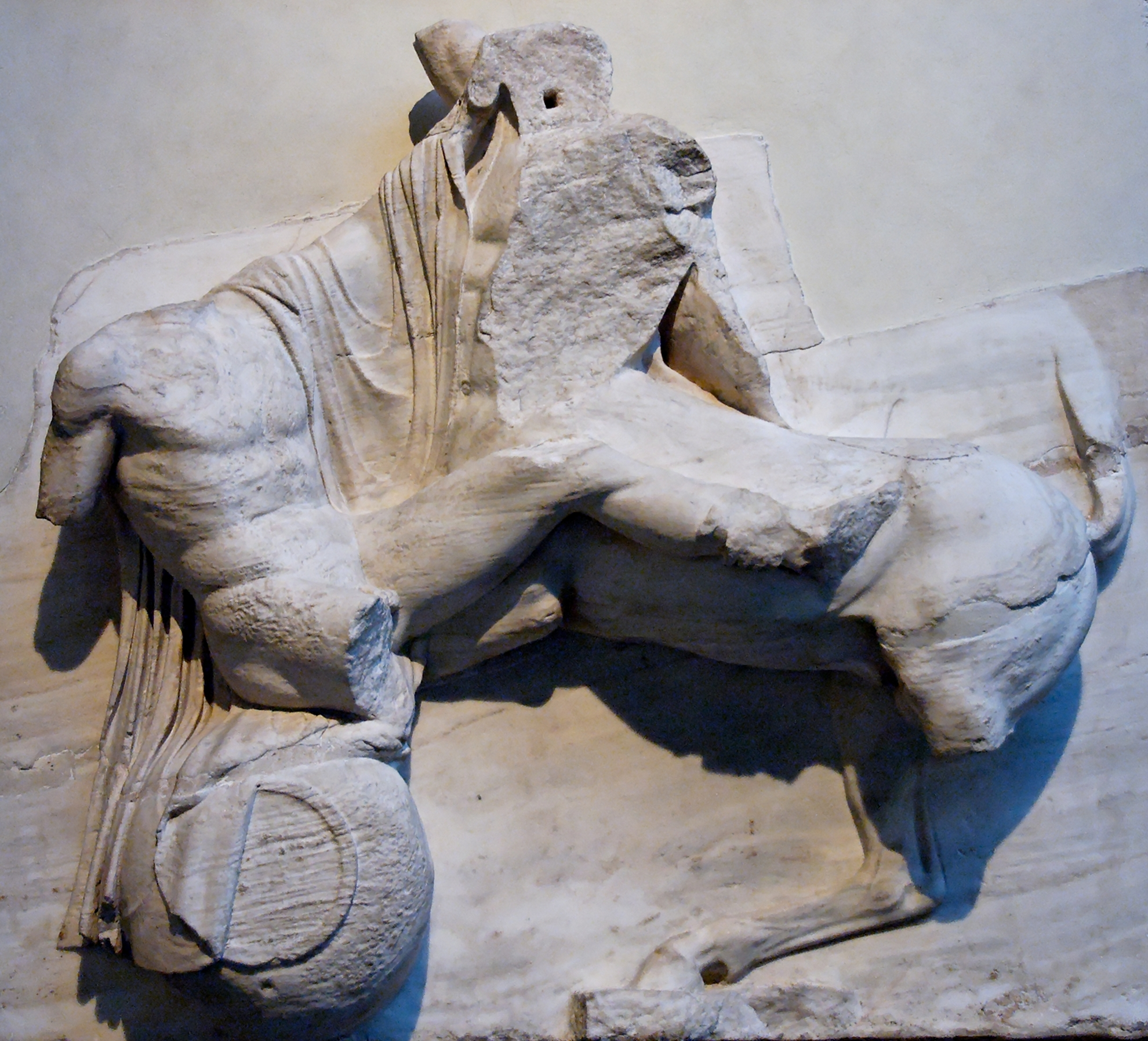 Lapith fighting a centaur. South Metope 9, Parthenon, ca. 447–433 BC.